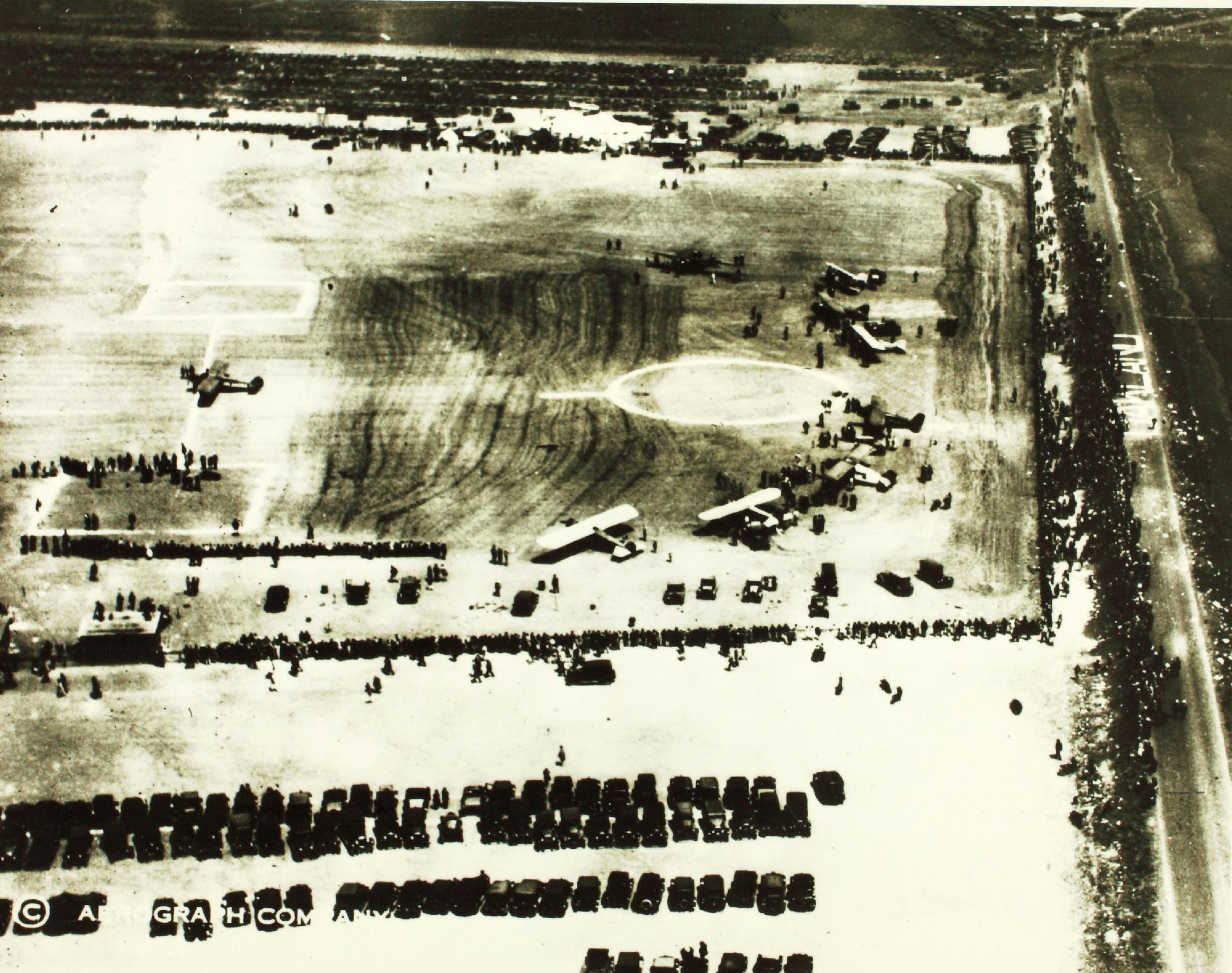 Catalog #: 10_0014572 Title: Dole Air Race Additional Information: Dole Air Race Tags: Dole Air Race, Dole Air Race Repository: San Diego Air and Space Museum Archive